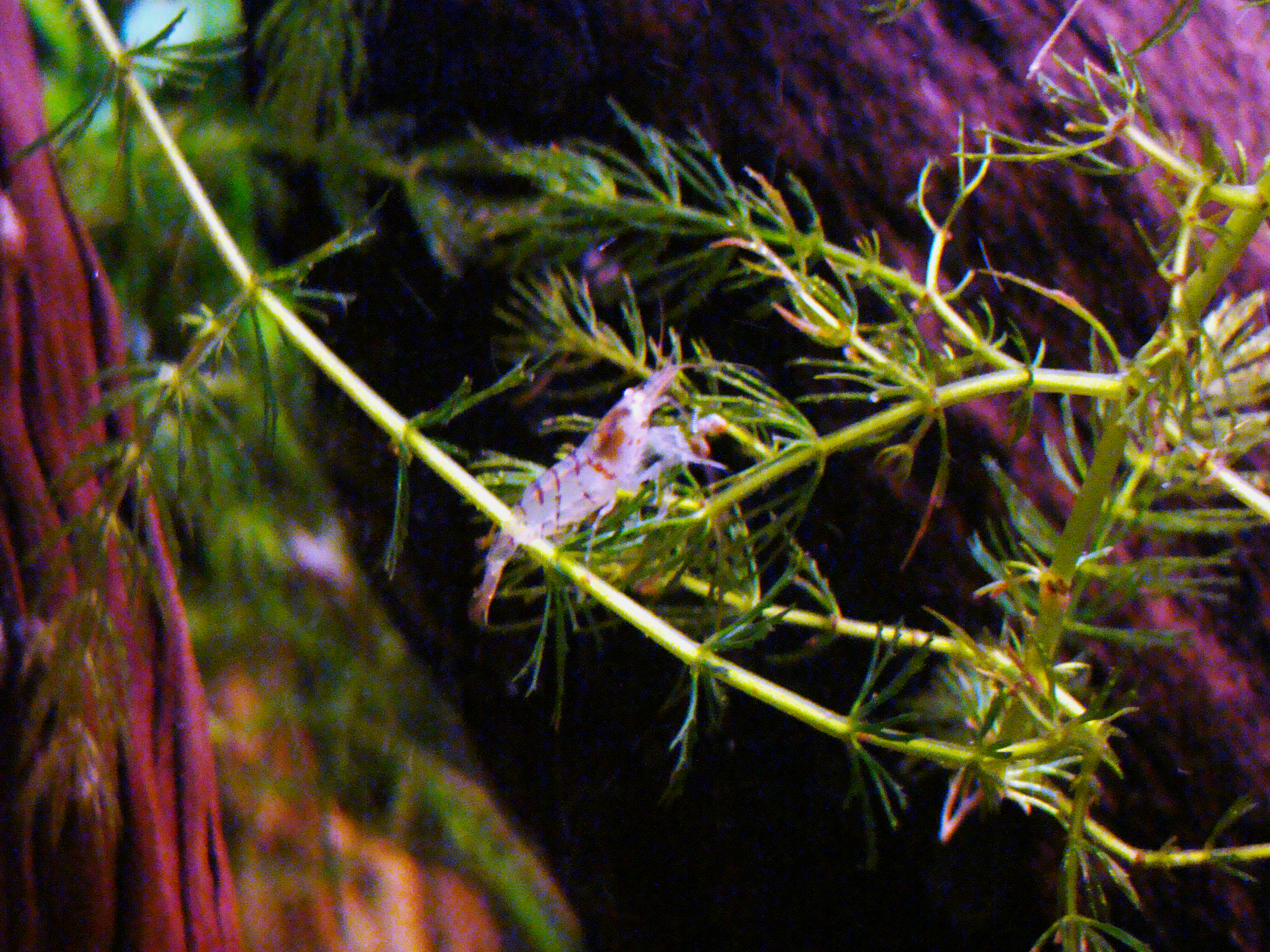 A blue tiger shrimp (Caridina cantonensis sp "blue") crawling on a plant in a freshwater aquarium.